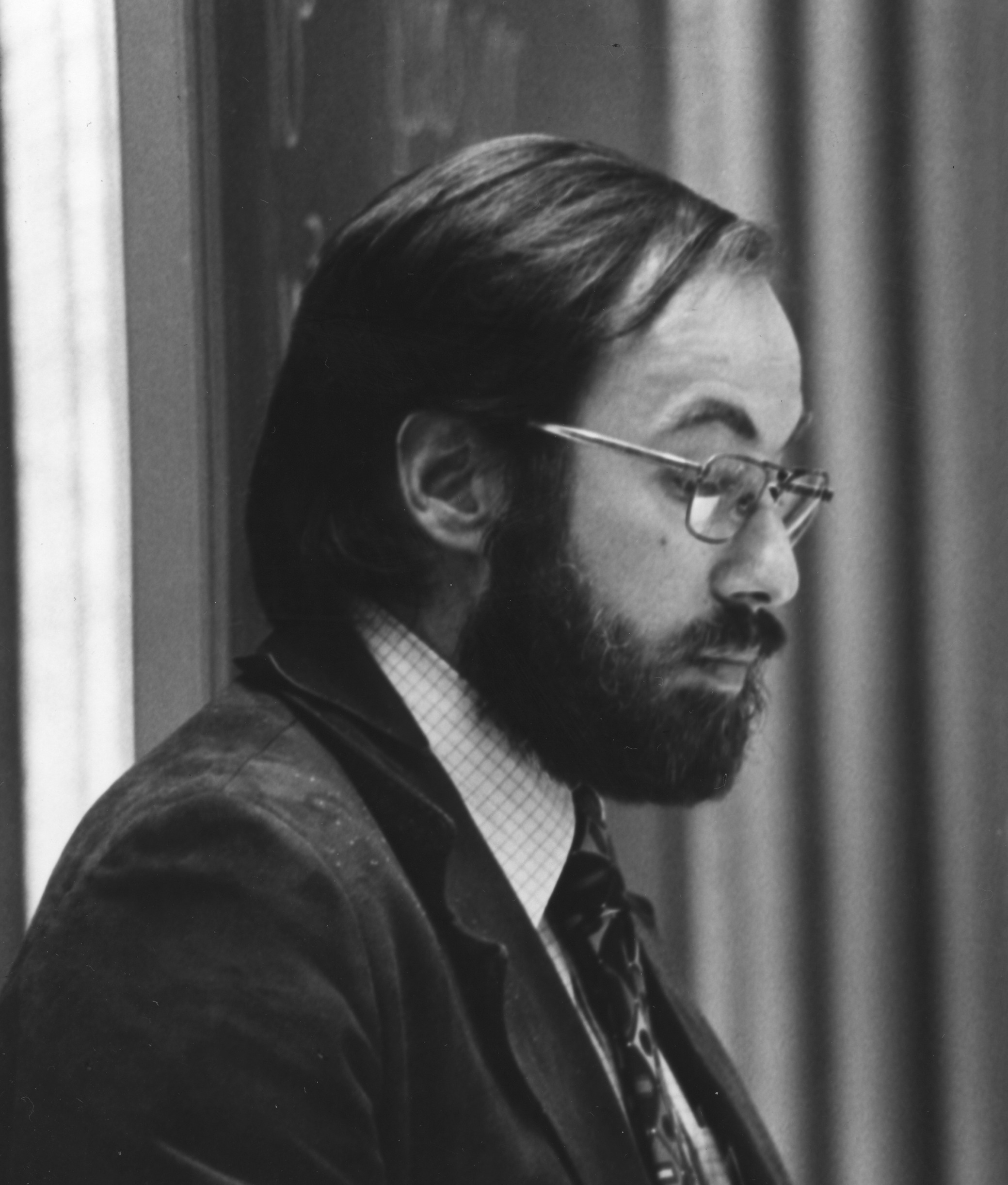 David Baltimore (born March 7, 1938)